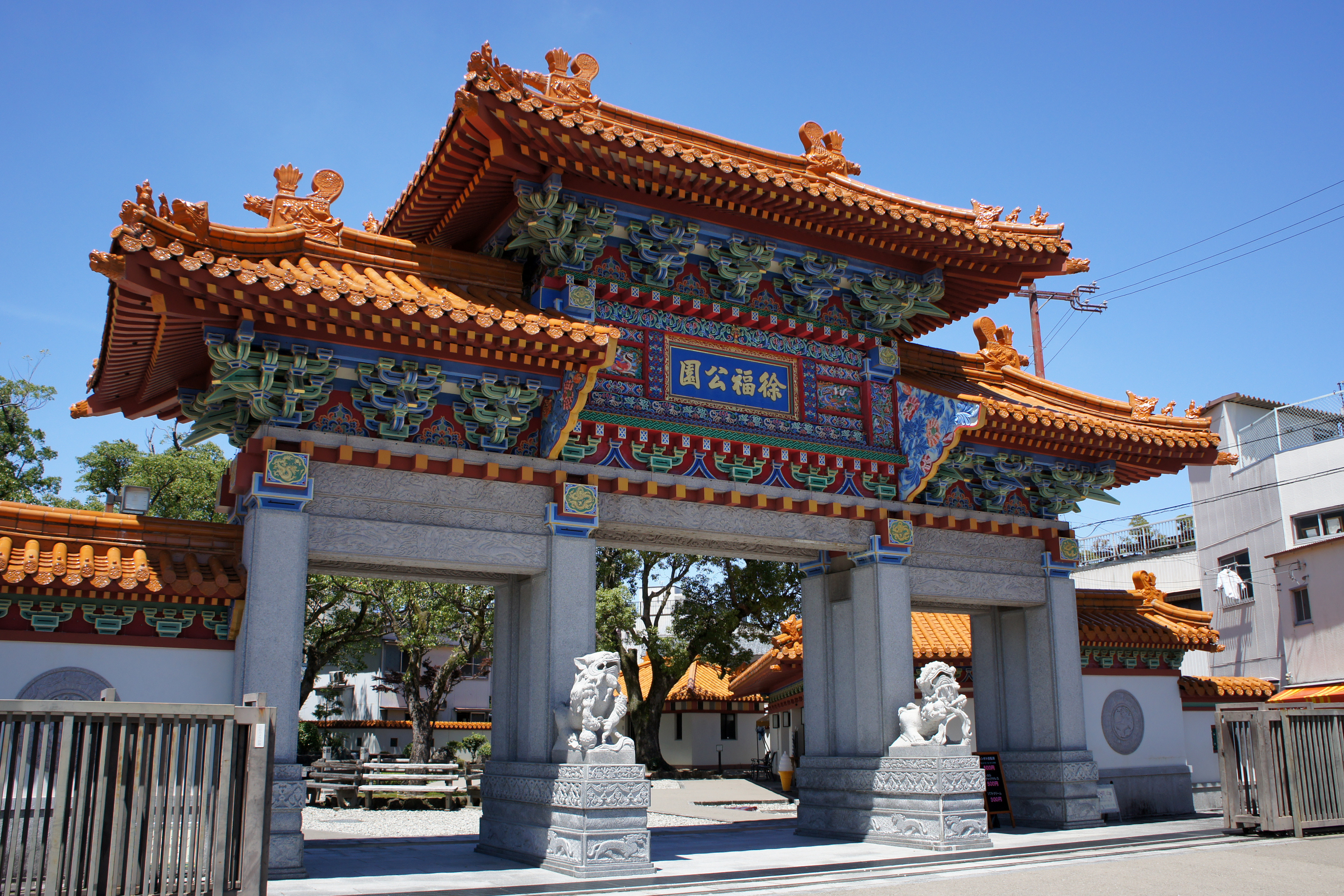 Jofuku-Park's Tower gate in shigu, Wakayama prefecture, Japan